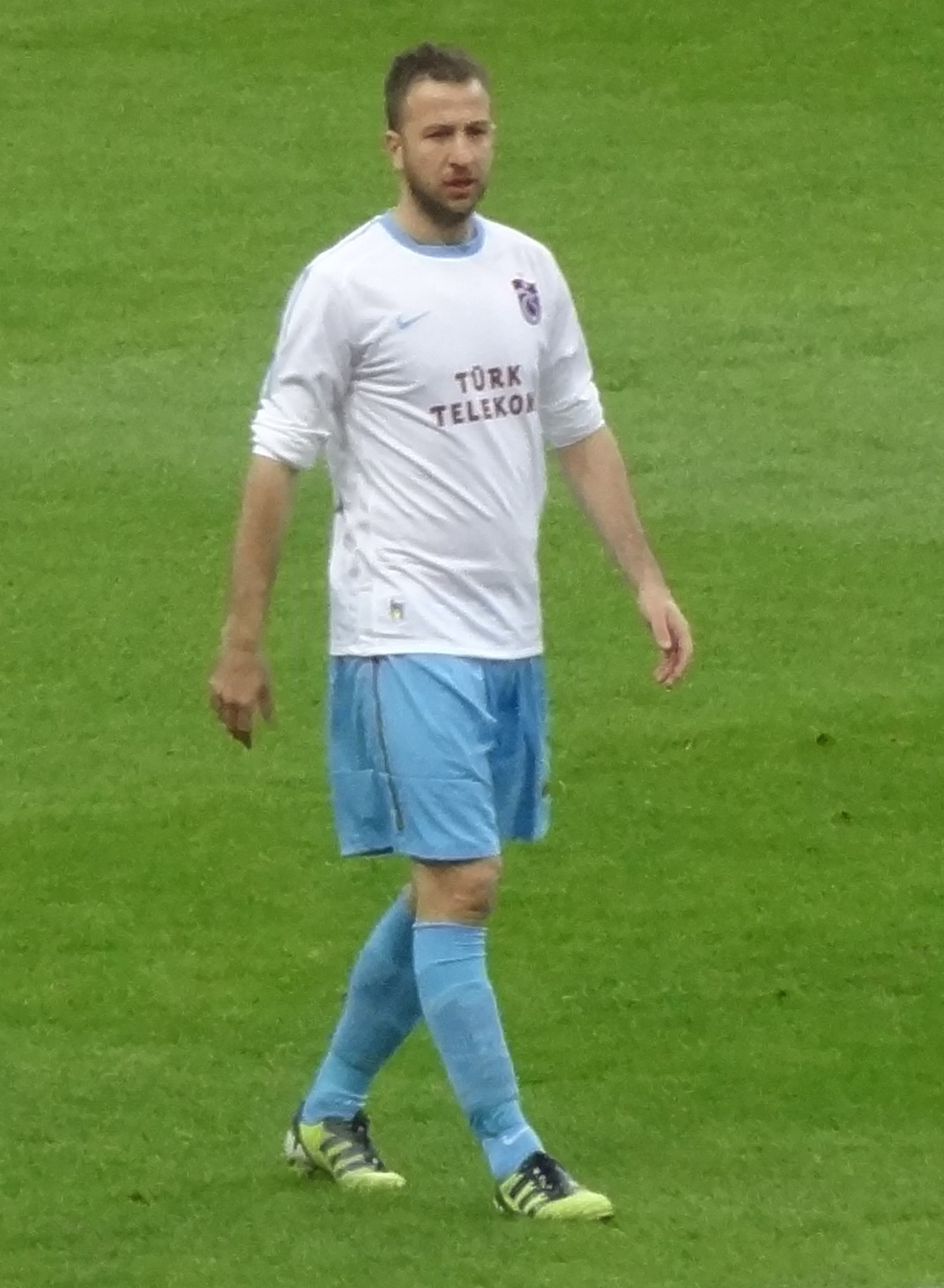 Remzi Giray playing against GS